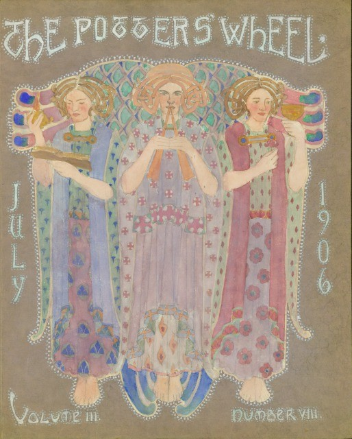 Identifier: D03429 Date: 1907-07 Decade: 1900-1909 Creator: The Potters Type: Serial Subjects: Poetry , Drawing , Artists , Women authors , Authors , Women Rights: IN COPYRIGHT Permalink: Description: The cover design by Caroline Risque shows three people in robes: one holding a candle and a book, one playing a musical instrument, and one holding a chalice. Issue includes table of contents and dedication design by Caroline Risque; famous quotations, a poem titled "To Fiona Macleod," and decorations by Willamina Parrish; a fairy-tale decoration and a border design by Vine Colby; two poems titled "The Wind and the Flame" and "The Exotic" by Edna Wahlert; two poems titled "The Sea-Bird" and "Ineros" by Sara Teasdale; an address by Lillie Rose Ernst; a poem titled "The Returning" by Susan Creighton Williams; and designs for hand-bound and tooled books by Grace Parrish